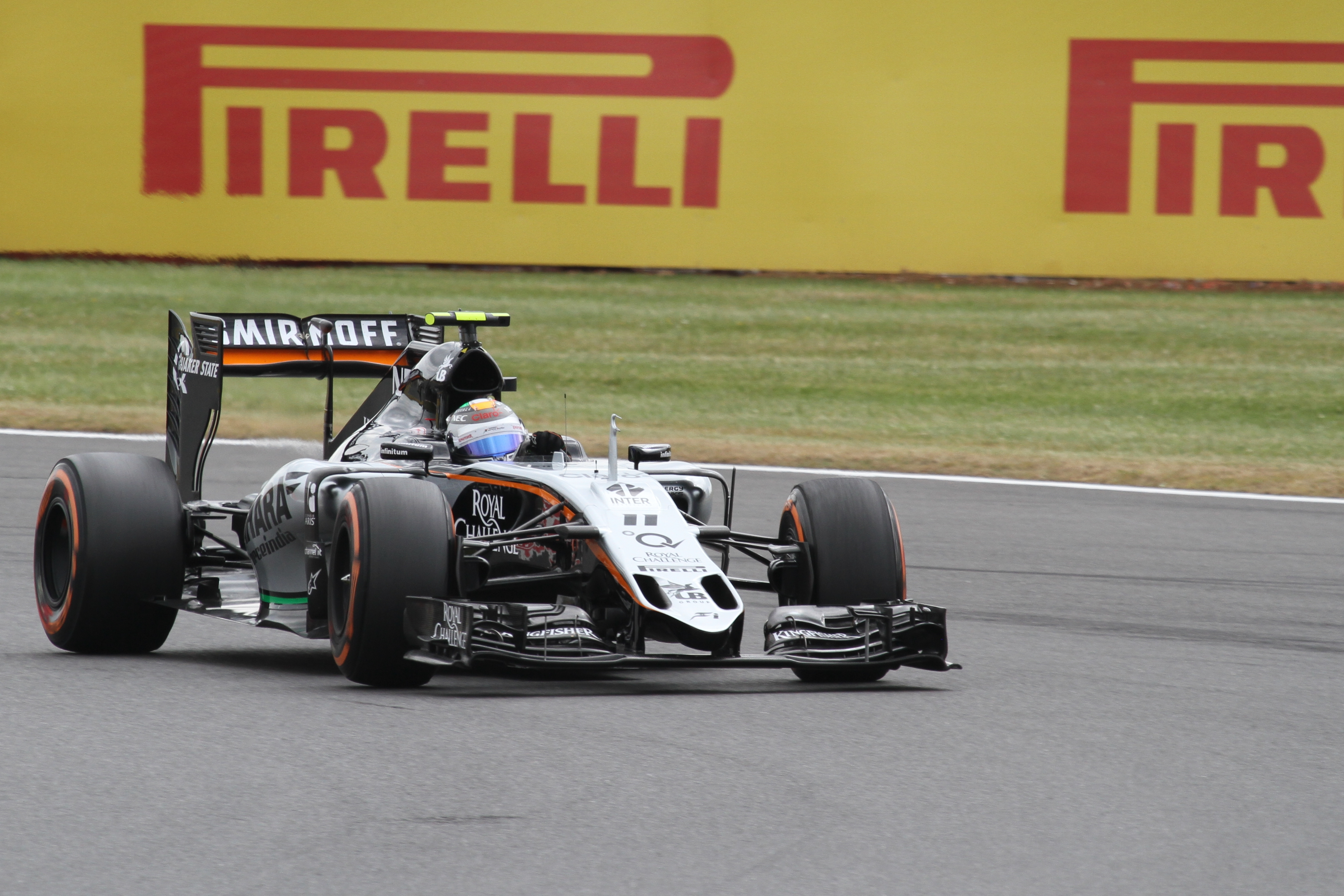 Sergio Pérez driving the Force India VJM08B at the 2015 British Grand Prix